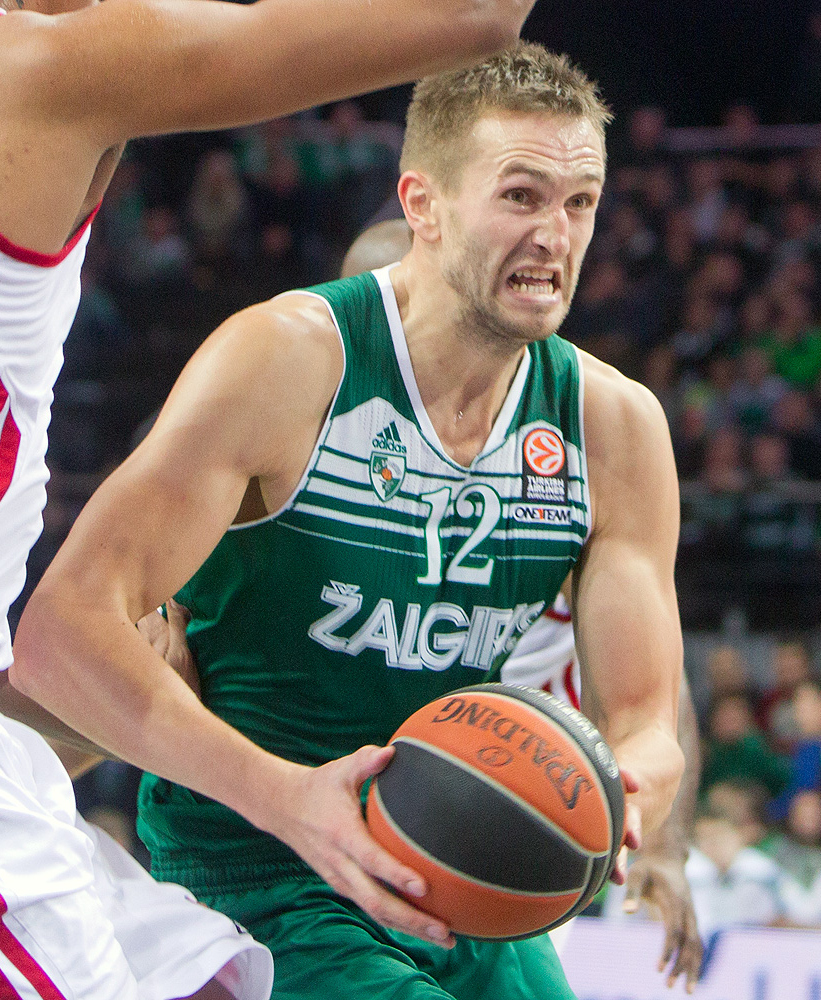 Basketball player Tadas Klimavicius